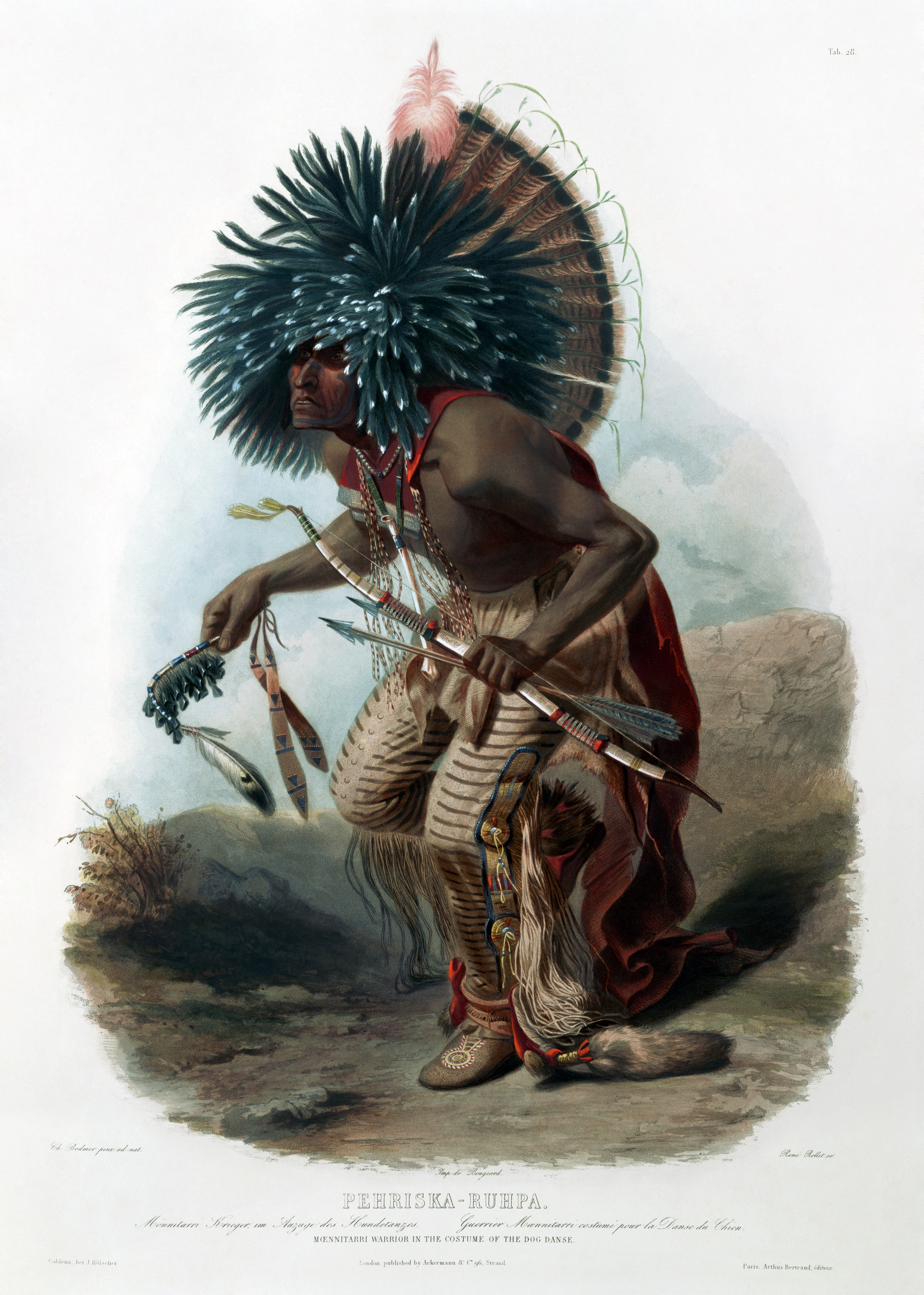 Moenitarri warrior in the costume of the dog danse